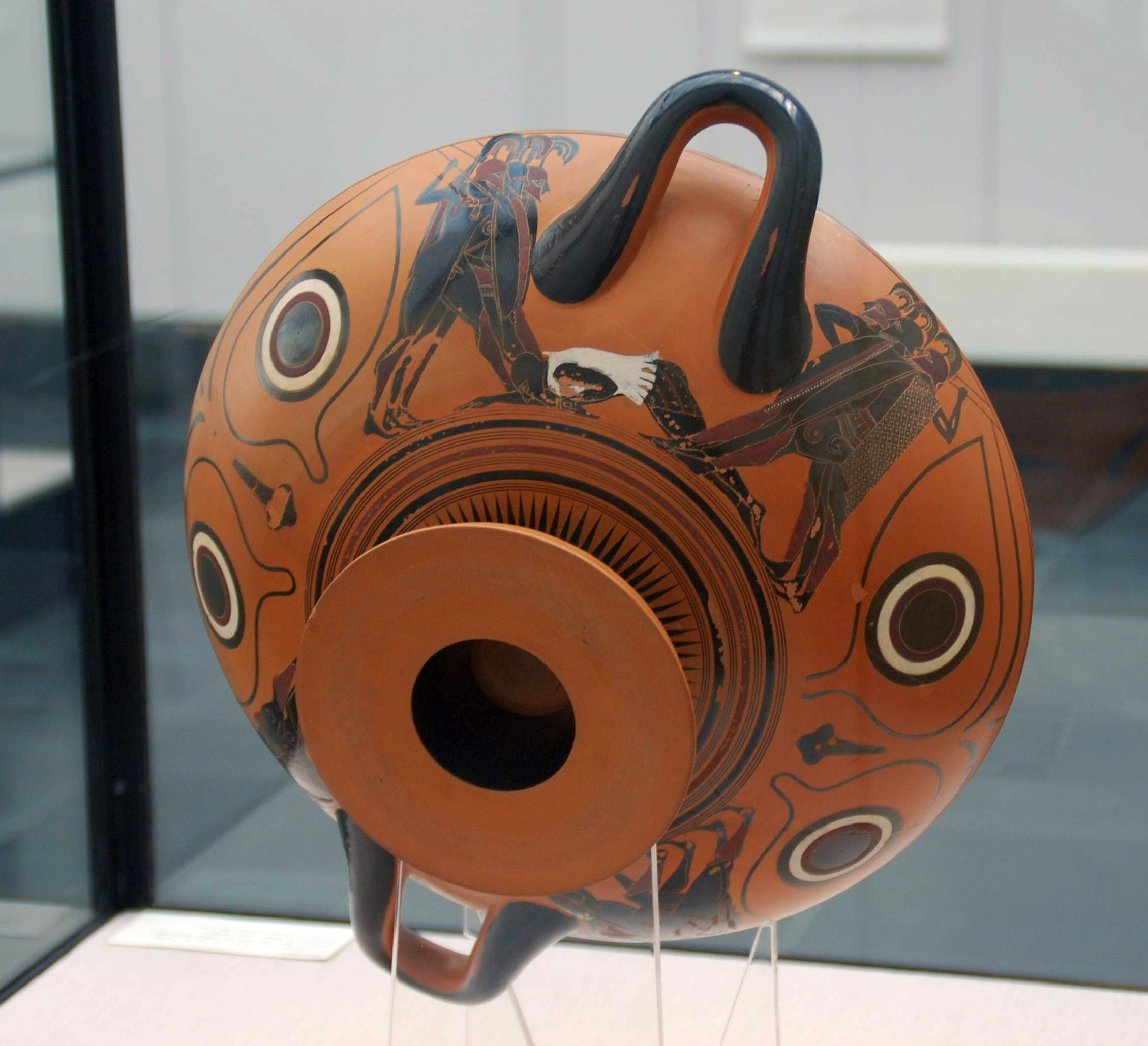 Dionysos in a ship, sailing among dolphins. Attic black-figure kylix, ca. 530 BC. From Vulci.